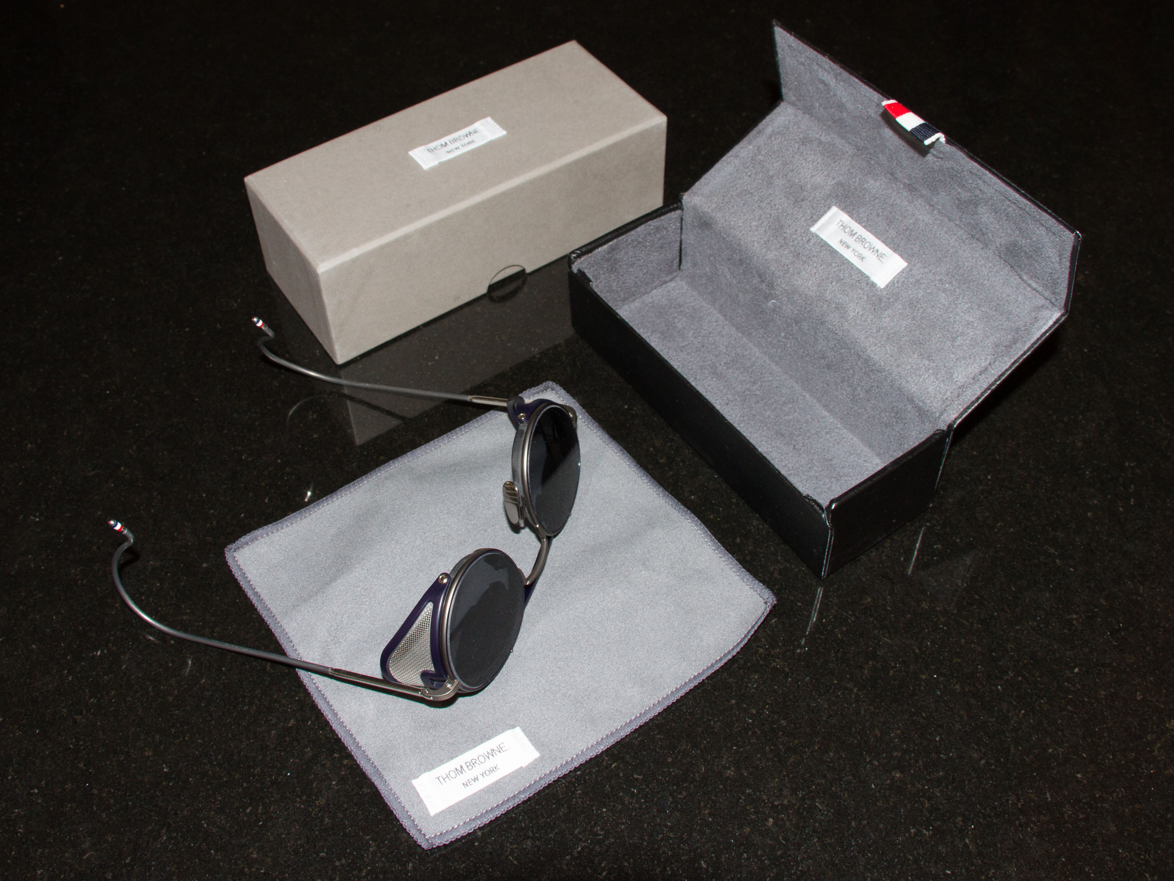 Thom Browne Sunglasses (prescription), Model: TB-001C-T-48, with accompanying cloth, case, and box.